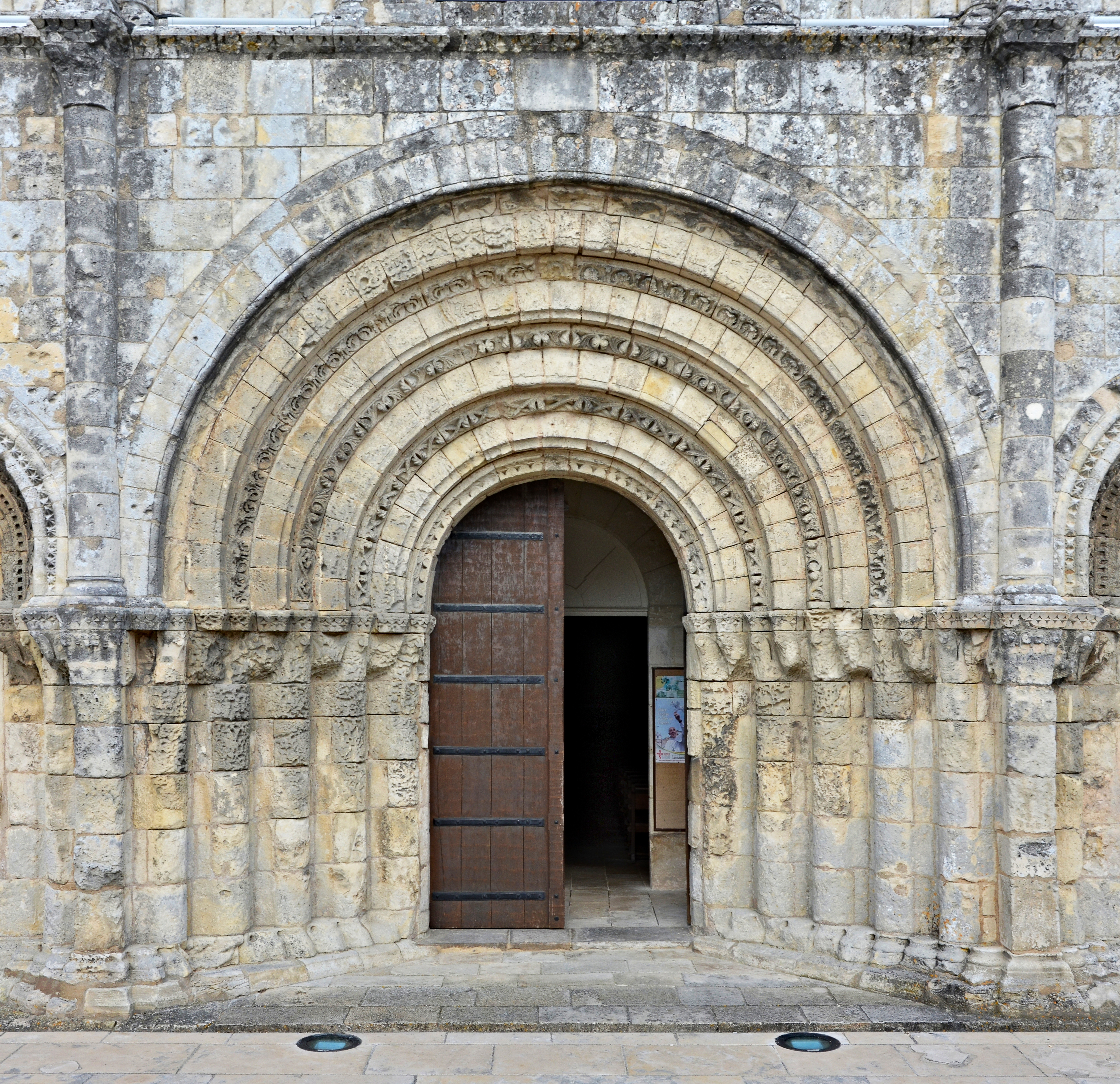 Portal of the church (12th century), Pons, Charente-Maritime, France.